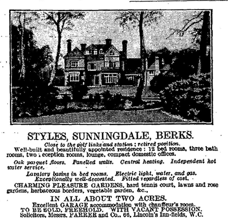 Advertisement for the sale of Styles, Charters Road, Sunningdale, Ascot in 1927.